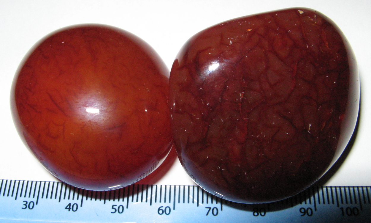 Two polished pebbles of carnelian/sard. Scale is in millimeters.